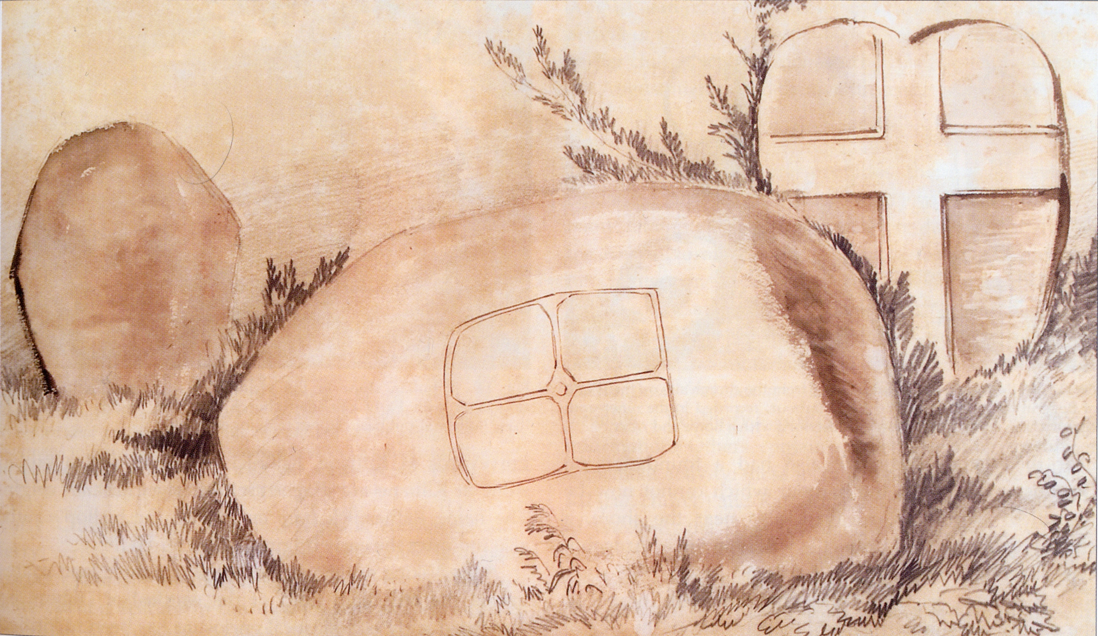 Boulder and cross slab at Begerin, close to Wexford, County Wexford, Ireland